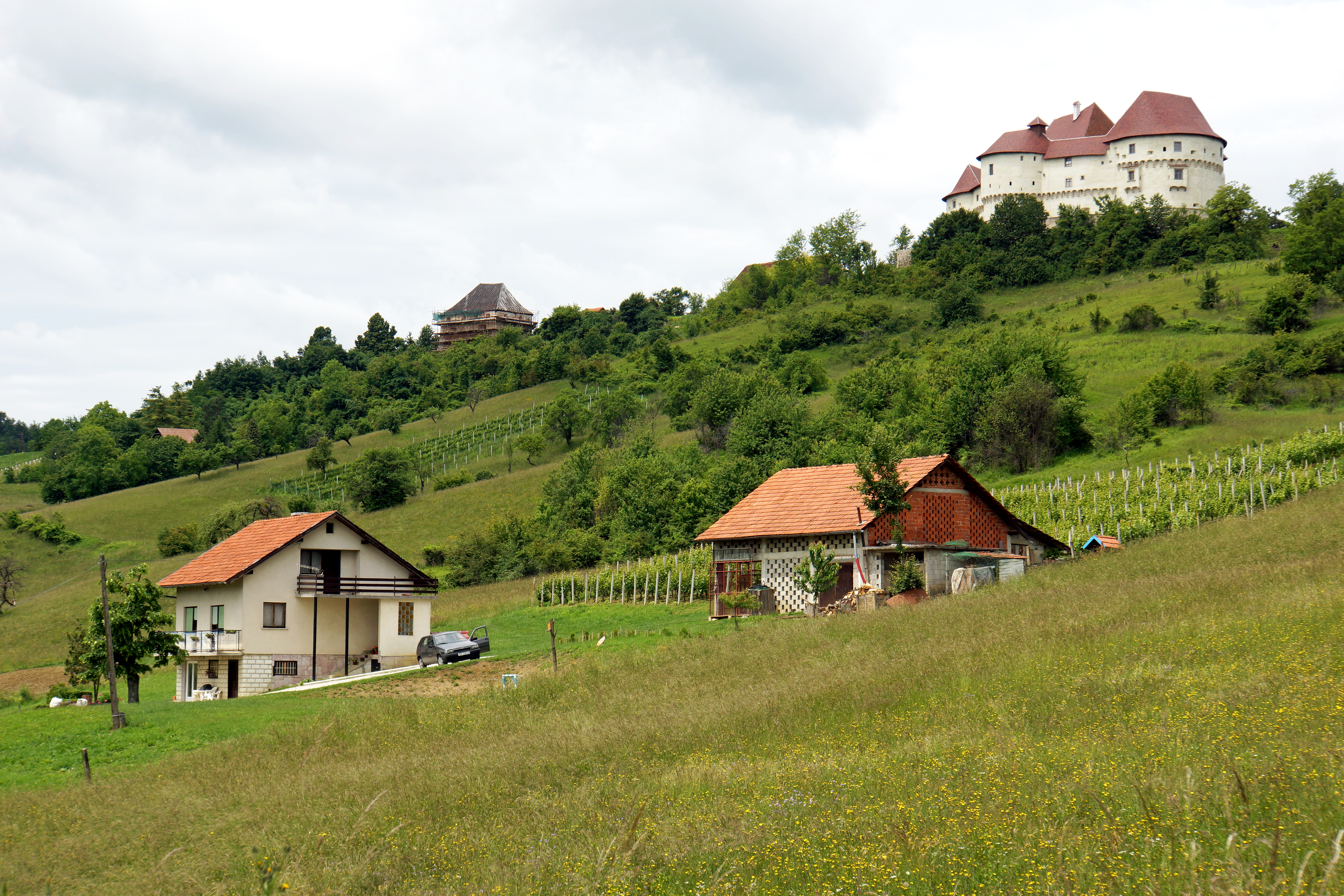 While other people were eating I went for a walk to try and get closer to the castle, there was a dirt road going to it but I did not have enough time. I wish I had know earlier and I would not have had lunch and walked up to the castle. Veliki Tabor Castle, built by Croatian nobility in the 16th century, the castle is a romantic collage of turrets, towers and tiny windows. It was originally built as a fortress with sweeping views. The legend of the castle is a romantic tragedy - Veronica of Desinic. During excavations at the castle in the 1980s, the skull of a woman was discovered. A legend of the 15th Century tells of the powerful Croatian count Herman II of Celje, whose son Frederick fell in love with a peasant beauty from the village of Desinic at the foot of the castle. Frederick was already married to the daughter of a powerful family, but divorced his wife to elope with the girl. They were married in the family hunting lodge of Friedrichstein in Slovenia. The old man, threatened by the collapse of his alliance with the family of his son's wife, refused to recognize the marriage and sent his soldiers to bring the lovers back to Croatia. He walled his son prisoner in a castle room until he would disavow his love for Veronica, but Frederick kept his promise to her for four years of captivity. As a last resort, Herman had Veronica tried as a witch. A court found her innocent of the charge, but the old man would not be refused and applied the old test of witchcraft, dunking her into water – if she floated to the top she was a witch, if she sank, she was innocent. Thrust head first into a large tub of water, she drowned - proved innocent of witchcraft, but dead. The skull is held in the chapel of the castle.